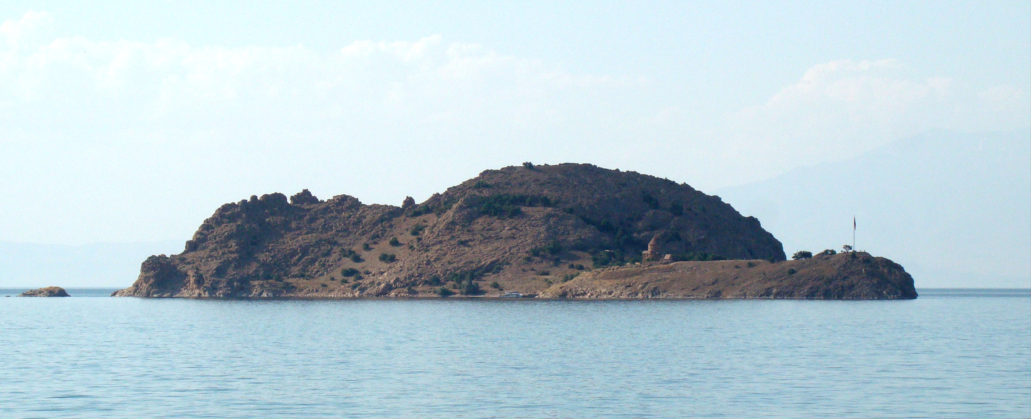 Akdamar Island seen from the south shore of Van Lake, near the town of Gevas. The Cathedral of the Holy Cross is visible on a strip of land on the east side of the island.